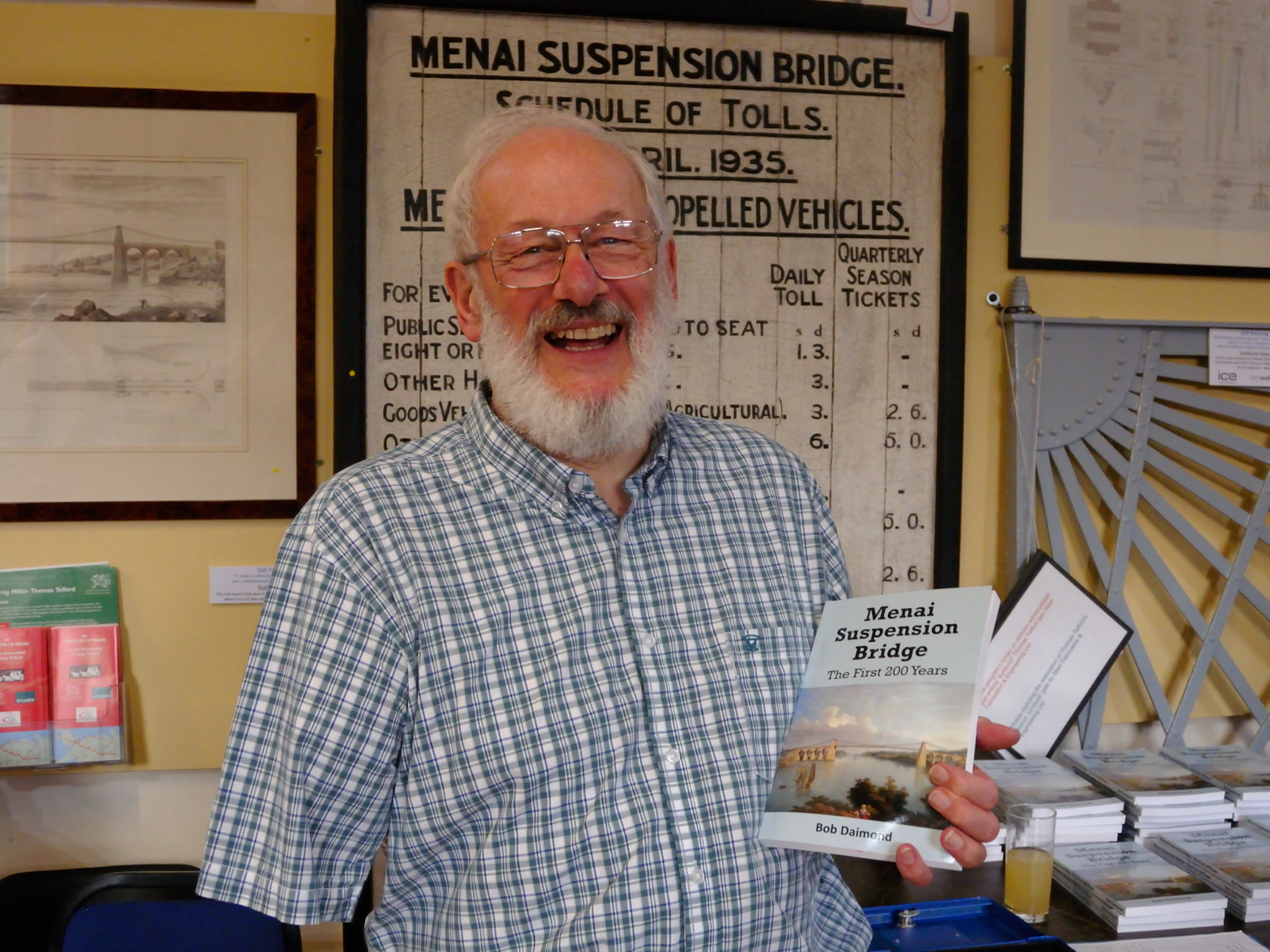 Bob Daimond at the launch of his book "Menai Suspension Bridge - The First 200 Years"